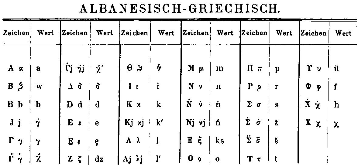 Alphabet used to write Tosk Albanian before the 1908 Congres of Manastir